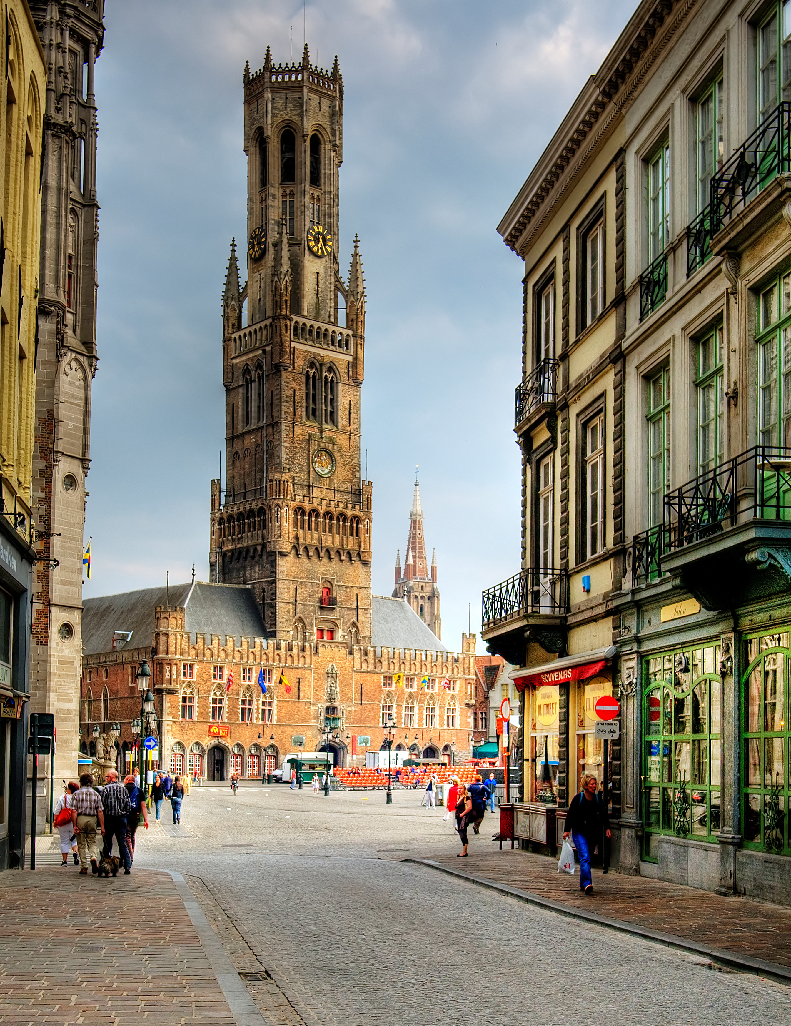 The Halletoren belfry on the market place in the city of Bruges in West Flanders (Belgium). The viewing direction is from Vlamingstraat towards the tower. Halletoren literally translated means Tower of the halls referring to the halls which once were located here on the market place.